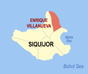 Map of Siquijor showing the location of Enrique Villanueva